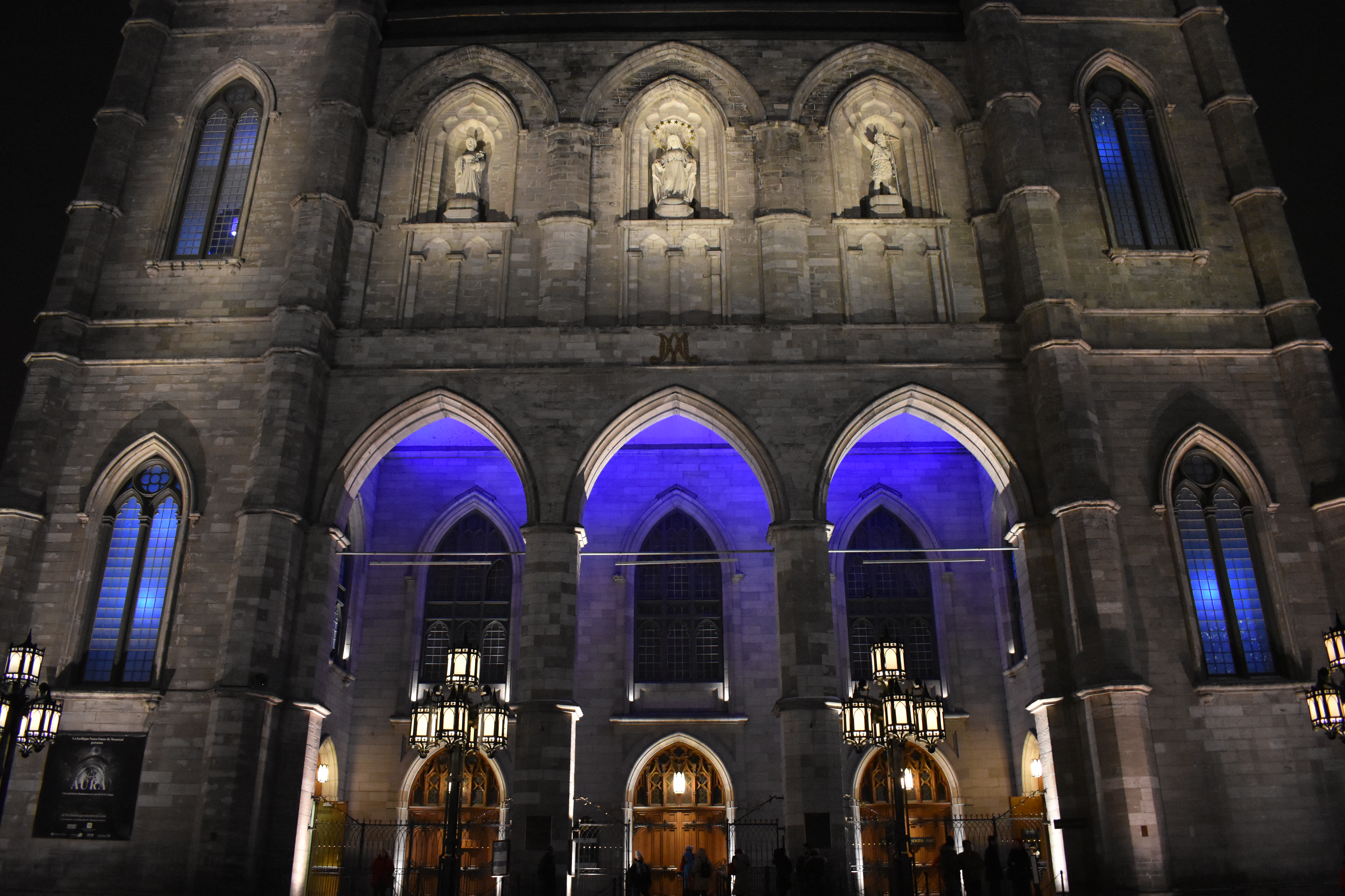 Notre-Dame de Montréal Basilica nov 2018